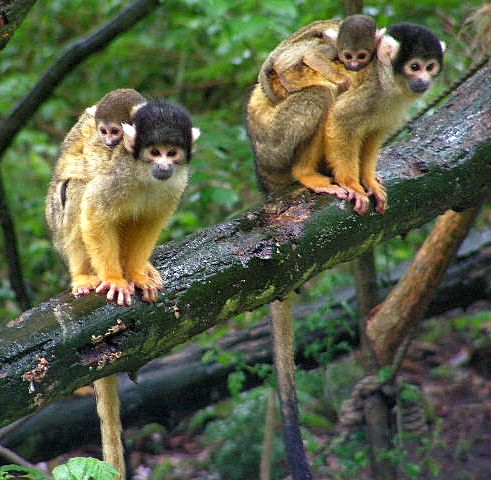 Black-capped Squirrel Monkey (Saimiri boliviensis). Picture taken in Apenheul zoo, Apeldoorn, The Netherlands. Photo by Jens Buurgaard Nielsen